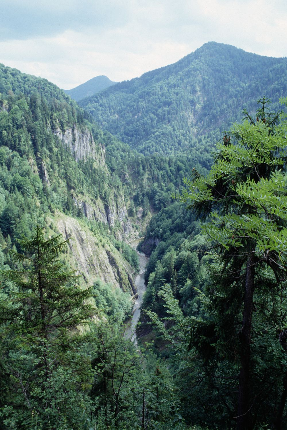 The Big Gorge in the Reichraminger Hintergebirge seen from the abandoned Annerlalm. Along the brook there is the so-called Triftsteig (orographically right). This is a partly fixed rope route with a level of difficulty A and B.